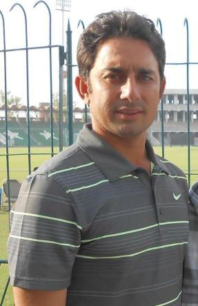 Farid with Saeed